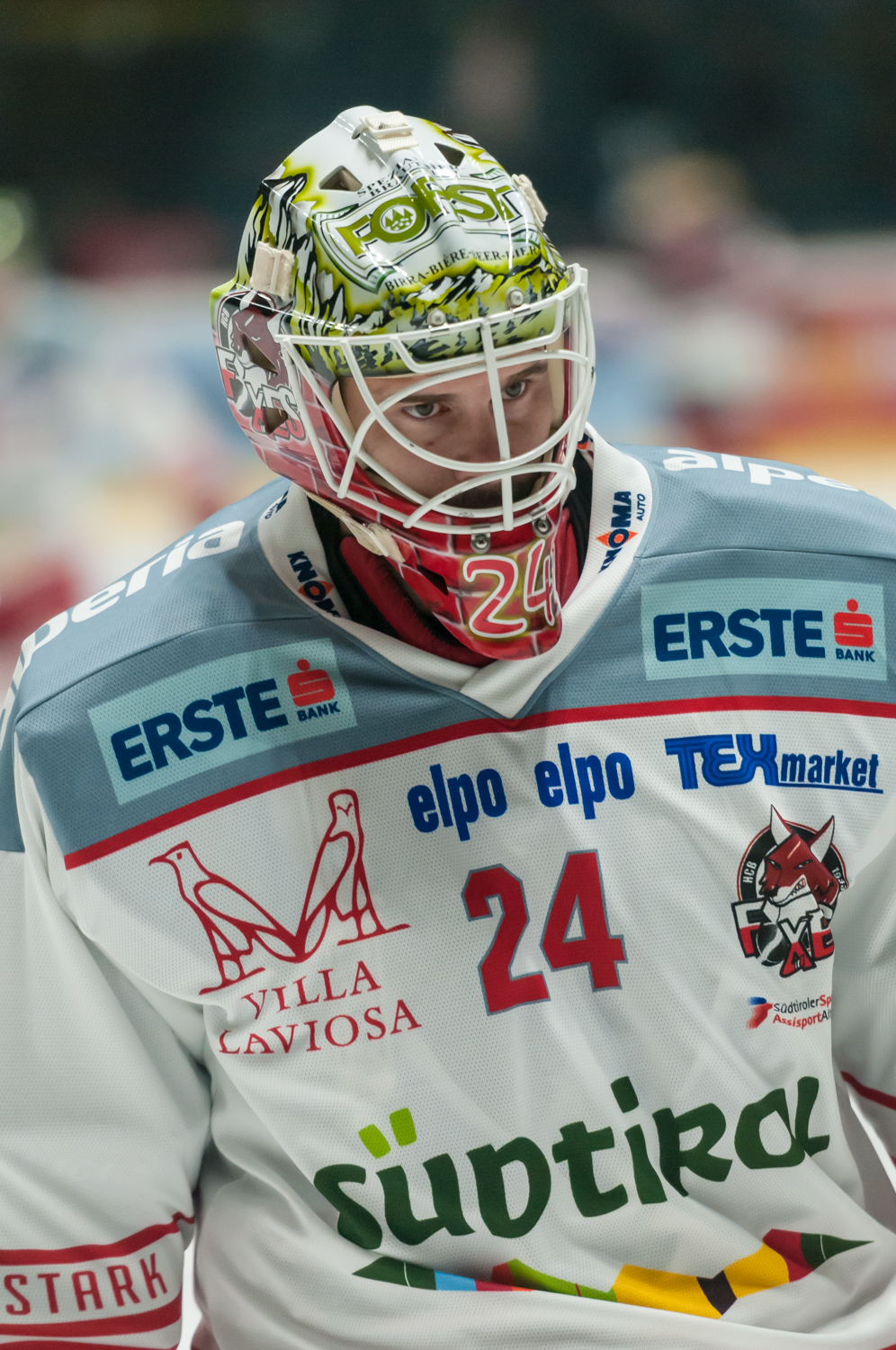 EBEL Orli Znojmo vs. HC Bolzano 2016-02-05